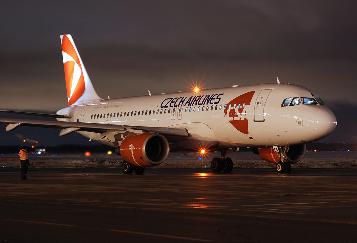 CSA - Czech Airlines Airbus A320-214 OK-GEA